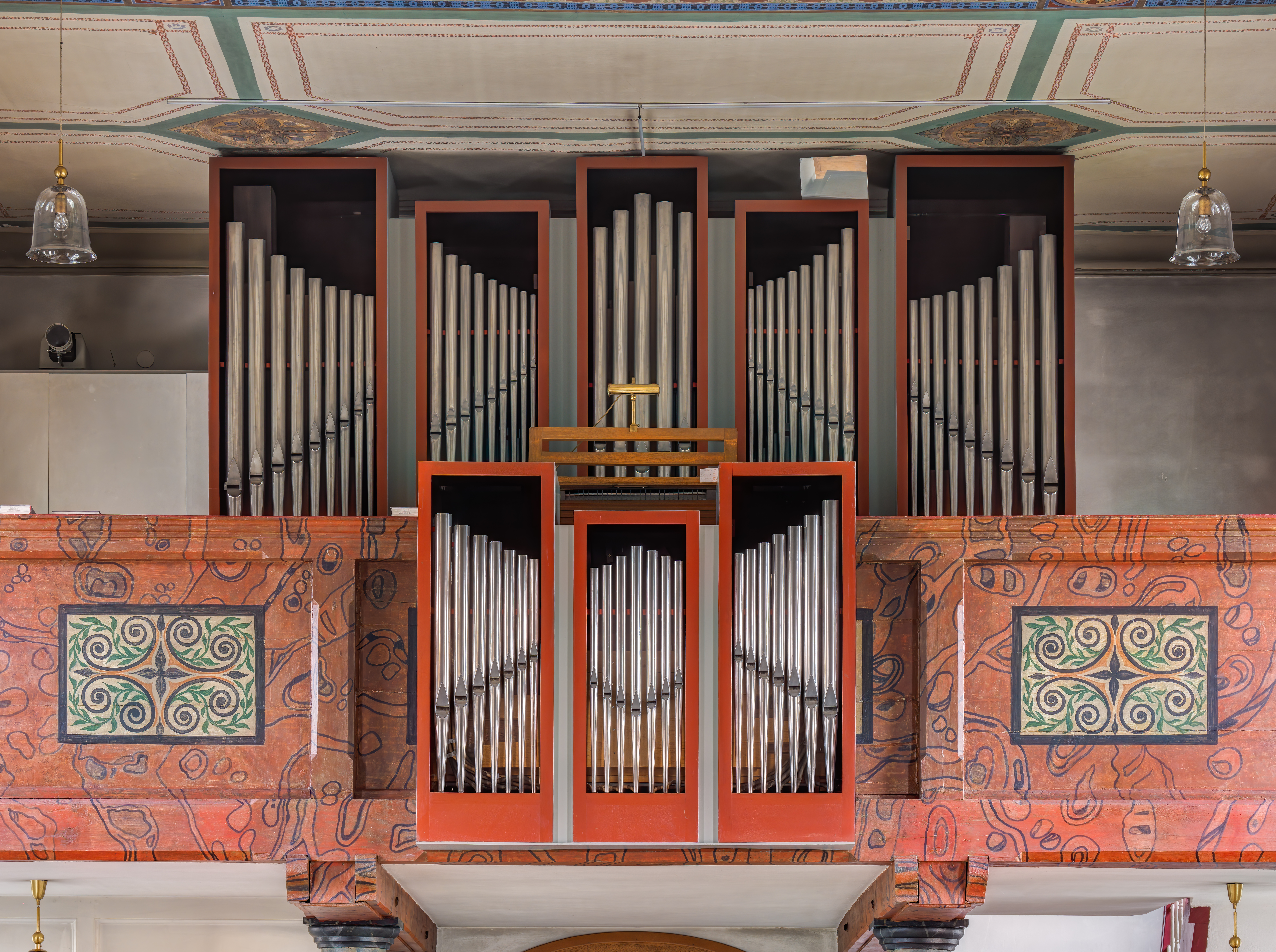 Pipe organ in the Catholic parish church Mariä Opferung in Poxdorf near Forchheim